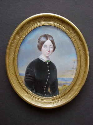 Portrait miniature on ivory of a young Lady wearing a black velvet dress with lace collar, pearl buttons and emerald brooch against a deep and sunny landscape with a palace in the foreground on the left of the sitter. A palace that probably had a certain importance for the lady portrayed. Her veiled look reveals some shyness and melancholy. It’s very interesting to note the beauty of her skin tone realized with great ability. Measures 9,00 x 7,50 cm. unframed, gilt bronze frame and glass contemporary to the miniature. Signed and dated 1847.